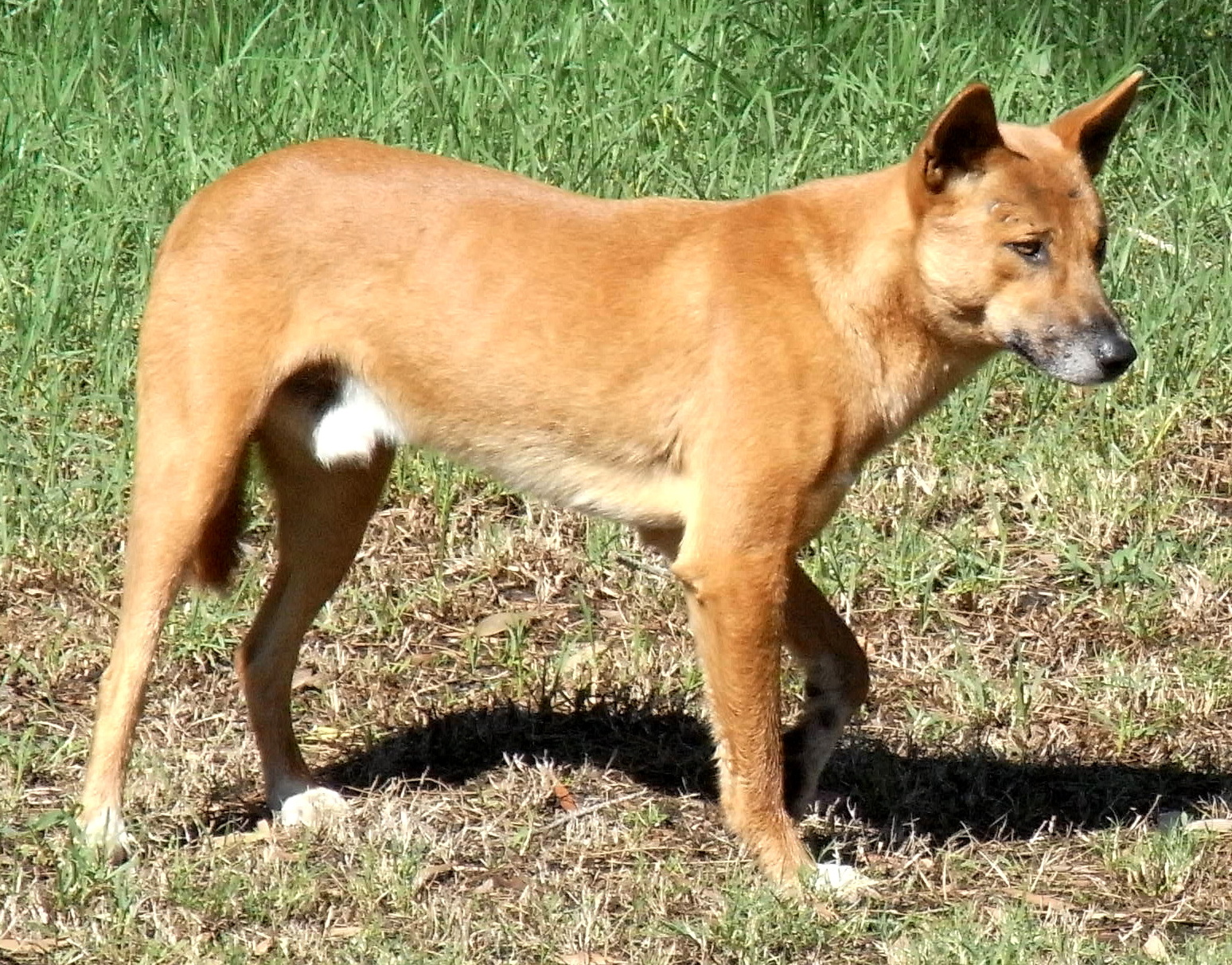 Wild Dingo (Canis lupus dingo) at Mungo Brush, Myall Lakes National Park, Australia.